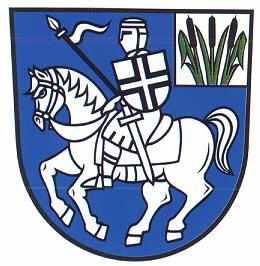 Coat of arms of the Town Gangloffsömmern